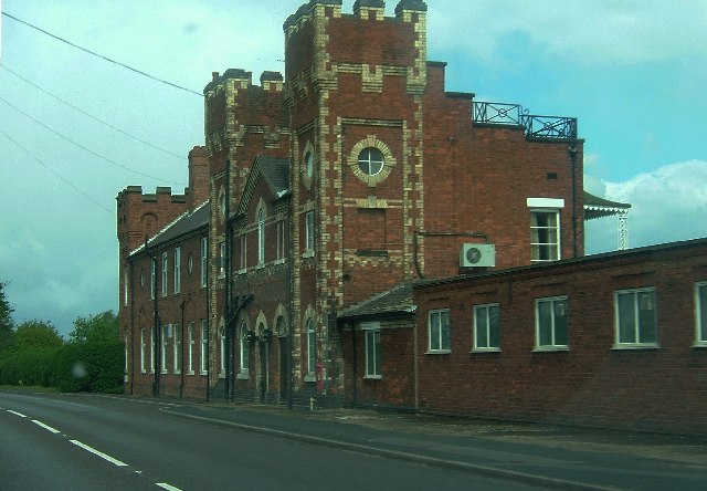 Golf Club. Club house at Whittington